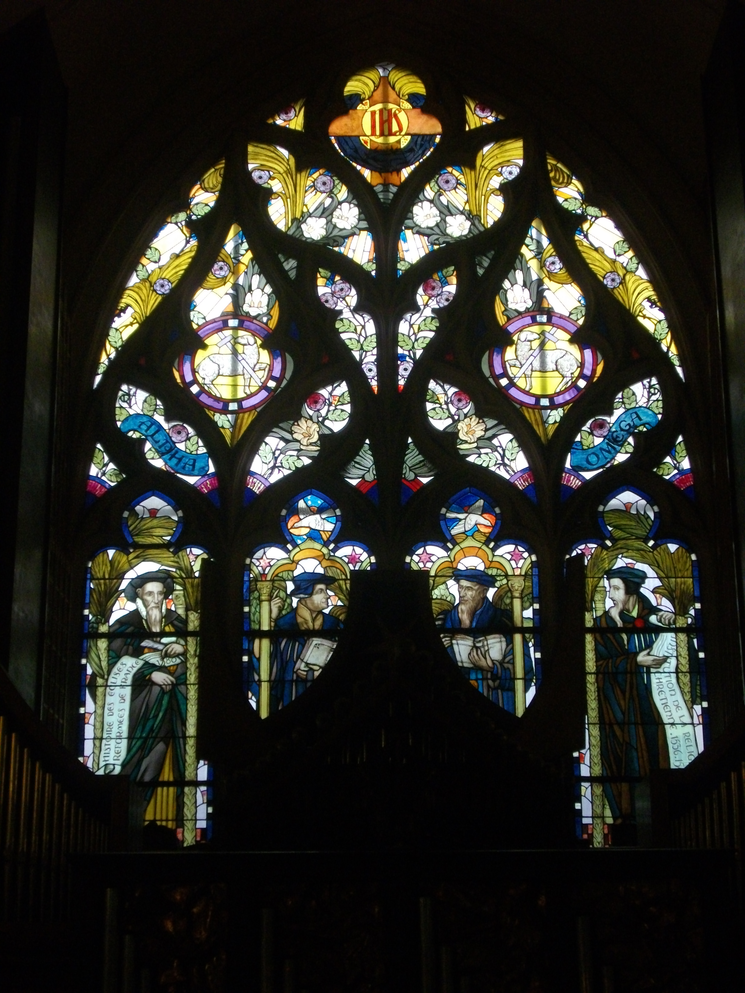 Protestant church of Reims (Marne, France). Stained glass window and pipe organ